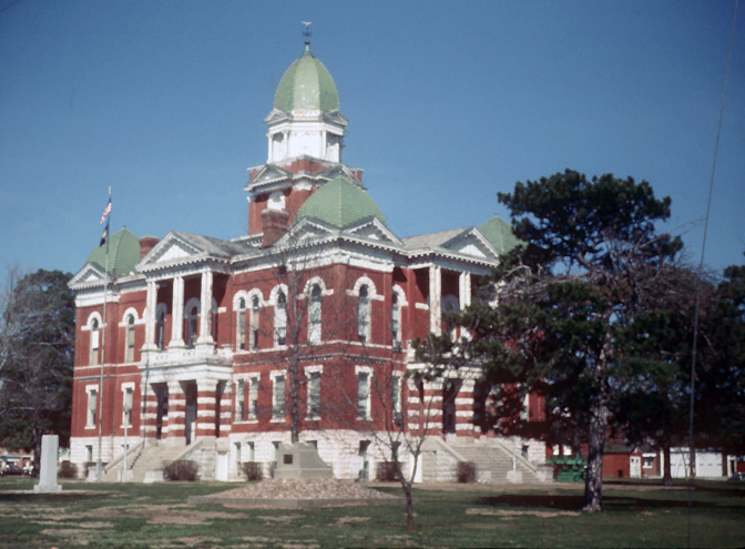 Front of the Johnson County Courthouse, located on Courthouse Square in Tecumseh, Nebraska, United States. Built in 1910, it is listed on the National Register of Historic Places.